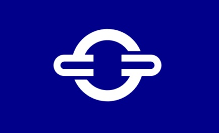 Flag of Tone Ibaraki